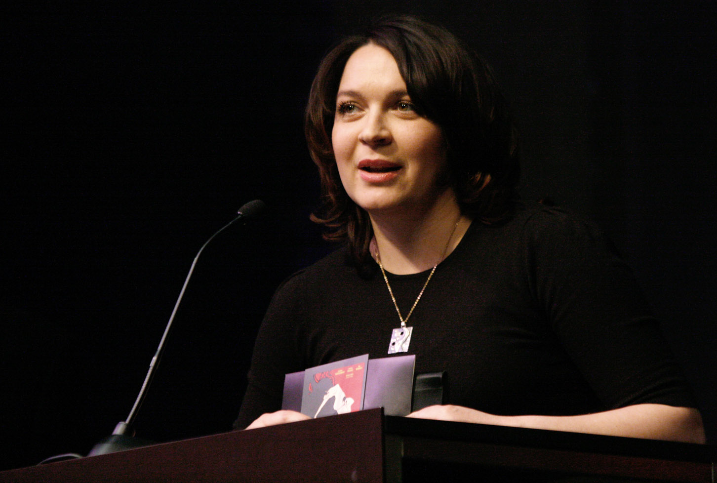 Barbara Romaner (Best Actress) at the Austrian Film Awards 2011 at the Odeon theater in Vienna.